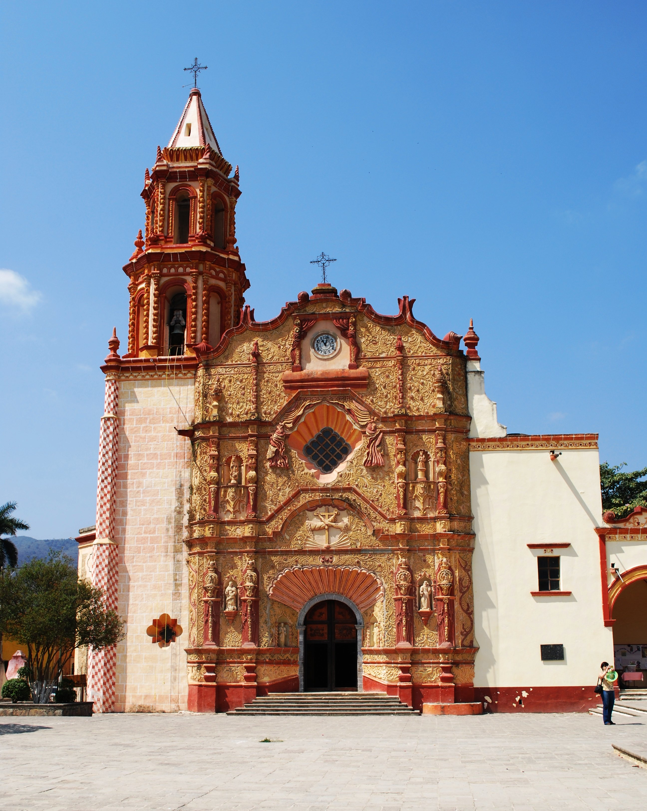 Facade of the mission church of Jalpan de Serra, Querétaro, Mexico